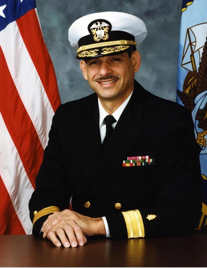 U.S. Navy Rear Admiral Alberto Diaz, Jr.